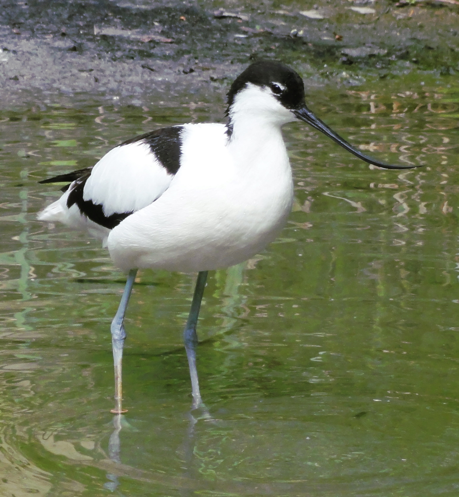 Pied Avocet in the Frankfurt Zoological Garden